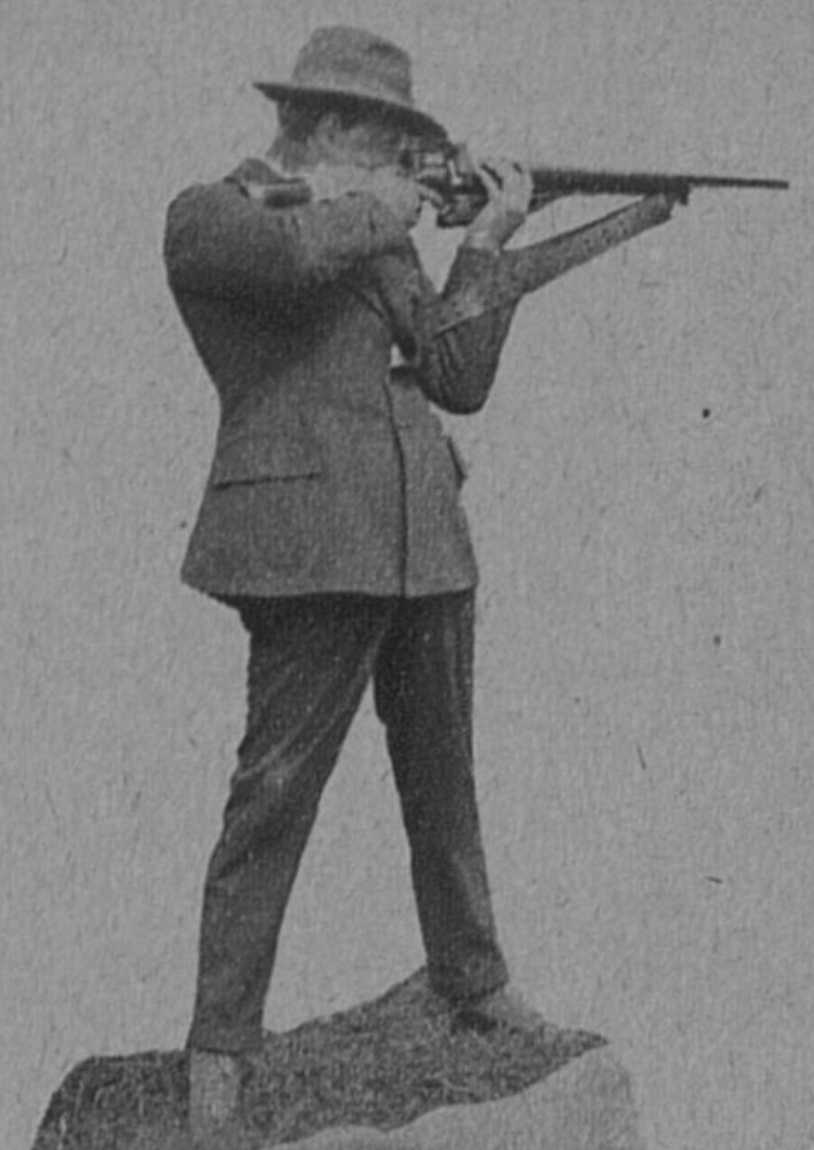 The Finnish singer and shooter Jean Theslöf at the shooting competition in Hanko, August 11-12, 1923